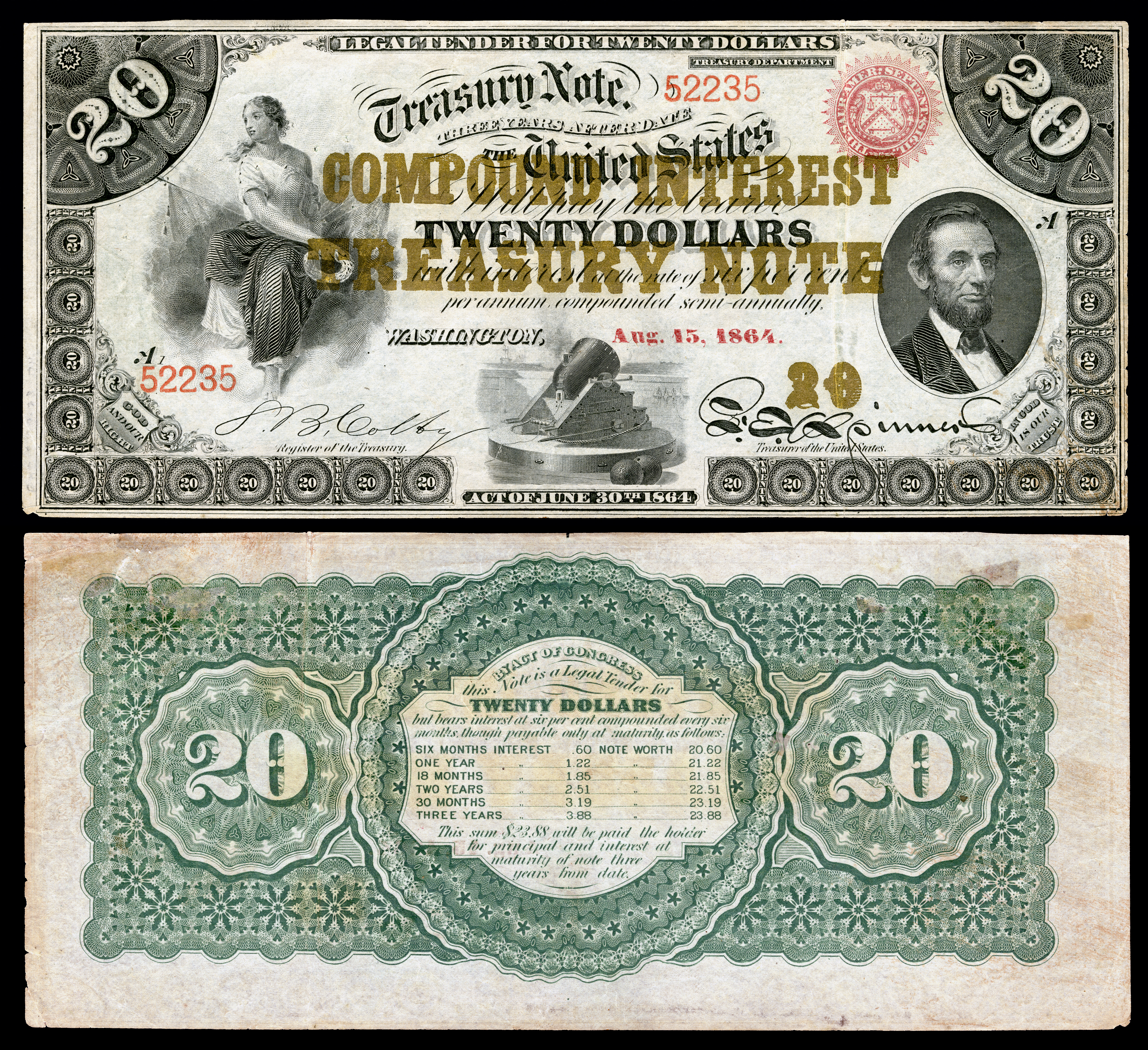 Two-year $20 Compound Interest Treasury Note, 1864. Engraved signatures of Colby (Register of the Treasury) and Spinner (Treasurer of the United States).